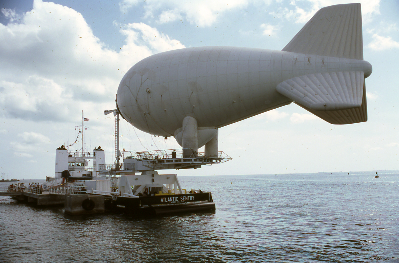 The Aerostat ship Atlantic Sentry at Mallory dock in September 1987. Photo by Raymond L. Blazevic.